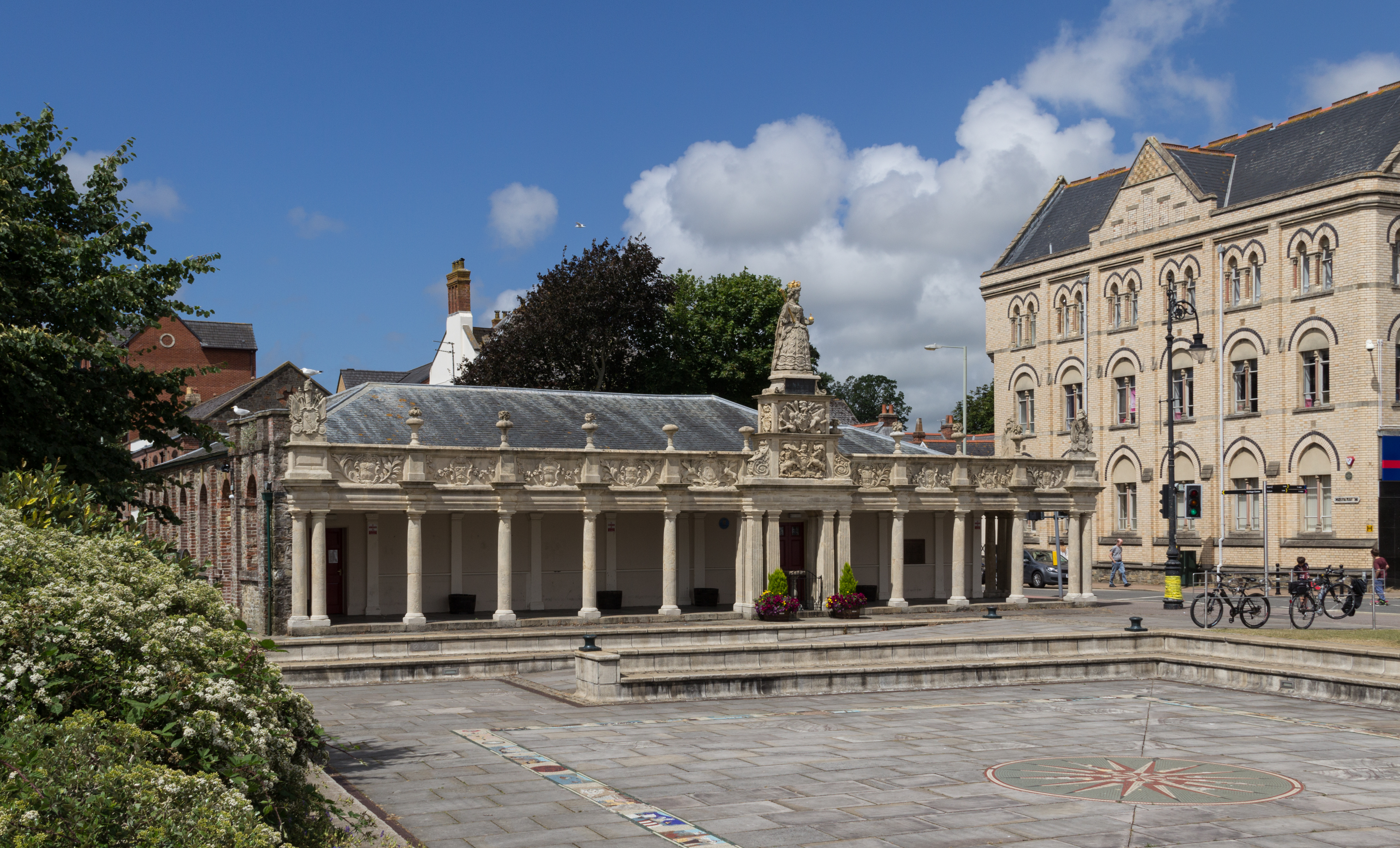 Queen Anne's Walk in Barnstaple, Devon, UK